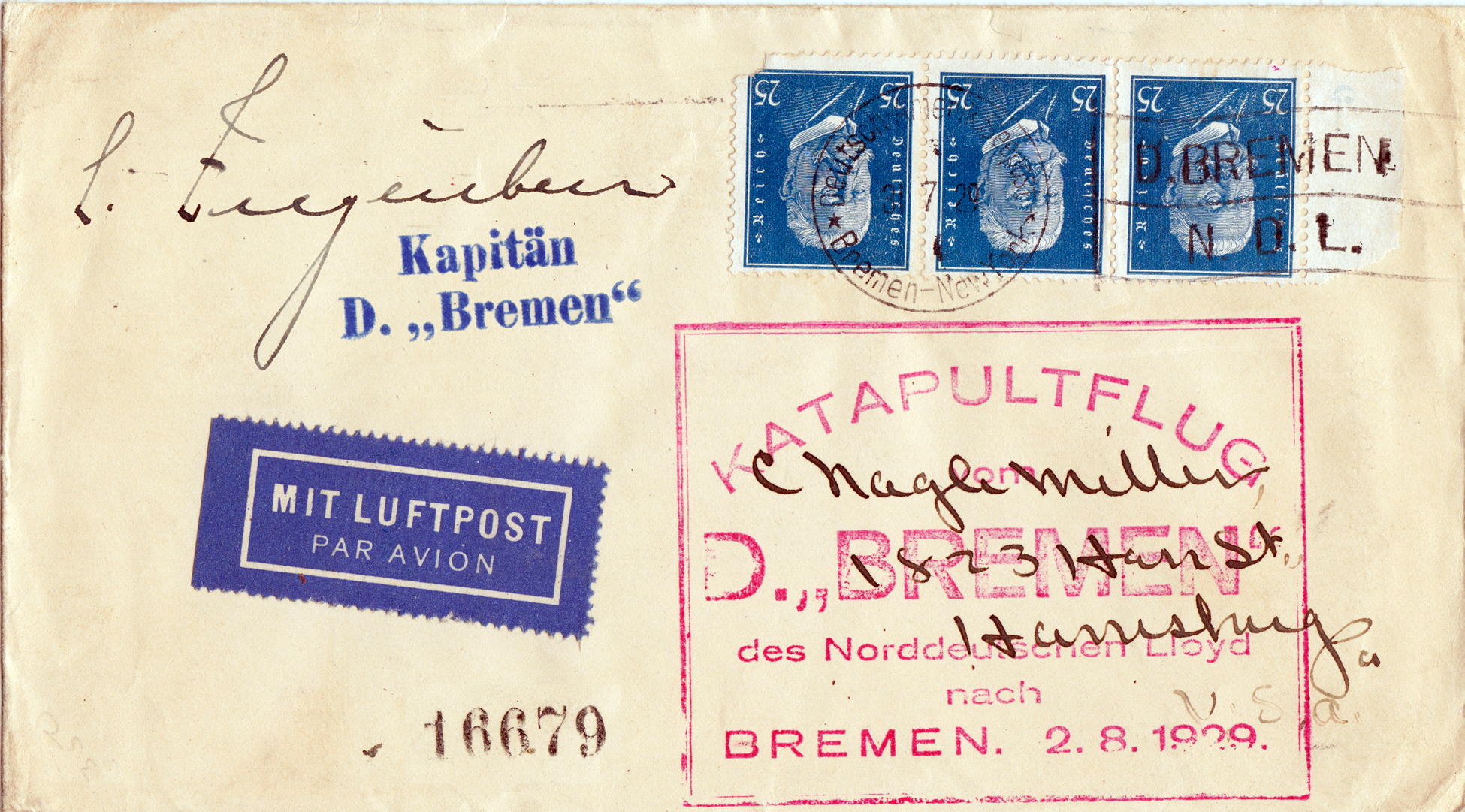 Cover flown on August 2, 1929 from the NDL liner SS BREMEN on the first eastbound voyage from New York to Bremerhaven, Germany providing "Katapultflug" Air Mail service by launching an HE-12 seaplane at sea by catapult to cut the time of delivering transatlantic mail by more than a day. It is autographed by the Bremen's master, Captain Leopold Ziegenbein.